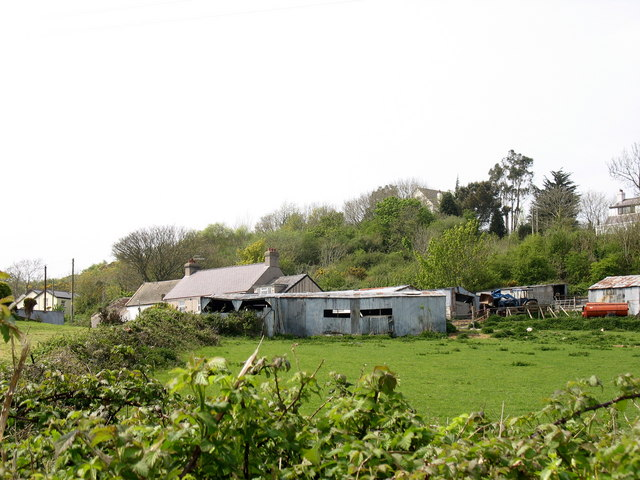 Houses at Mariandyrys